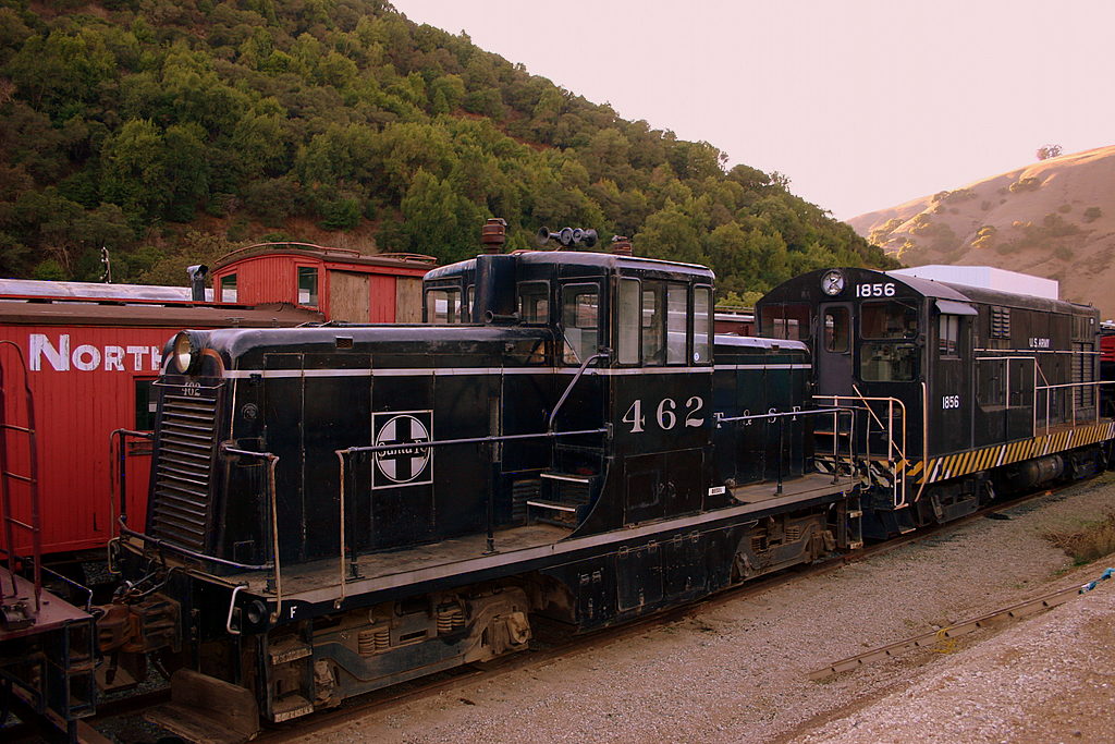 Atchison, Topeka and Santa Fe Railway 462 GE44t Switcher and US Army #1856 FM H-12-44.